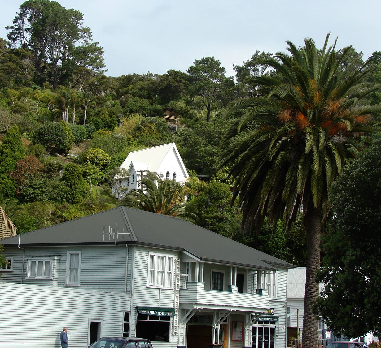 St Paul's Church (Anglican), 9 Old Church Road, Whangaroa, Kaeo 0478, New Zealand as seen above Marlin Hotel, 578 Whangaroa Rd Whangaroa, Kaeo 0478